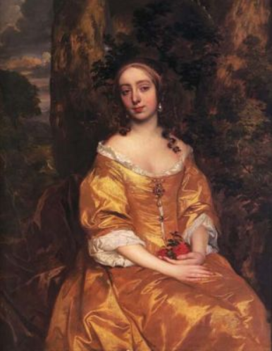 Portrait of Elizabeth Countess of Chesterfield